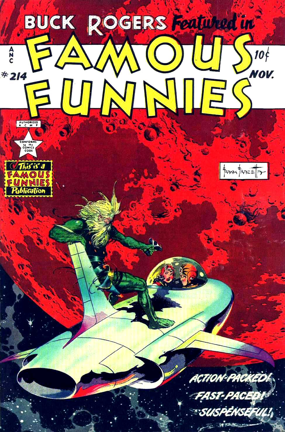 Cover of Famous Funnies number 214 (December 1953), featuring artwork by Frank Frazetta, using many of the techniques he employed in EC's science fiction titles. Publisher: Eastern Color.